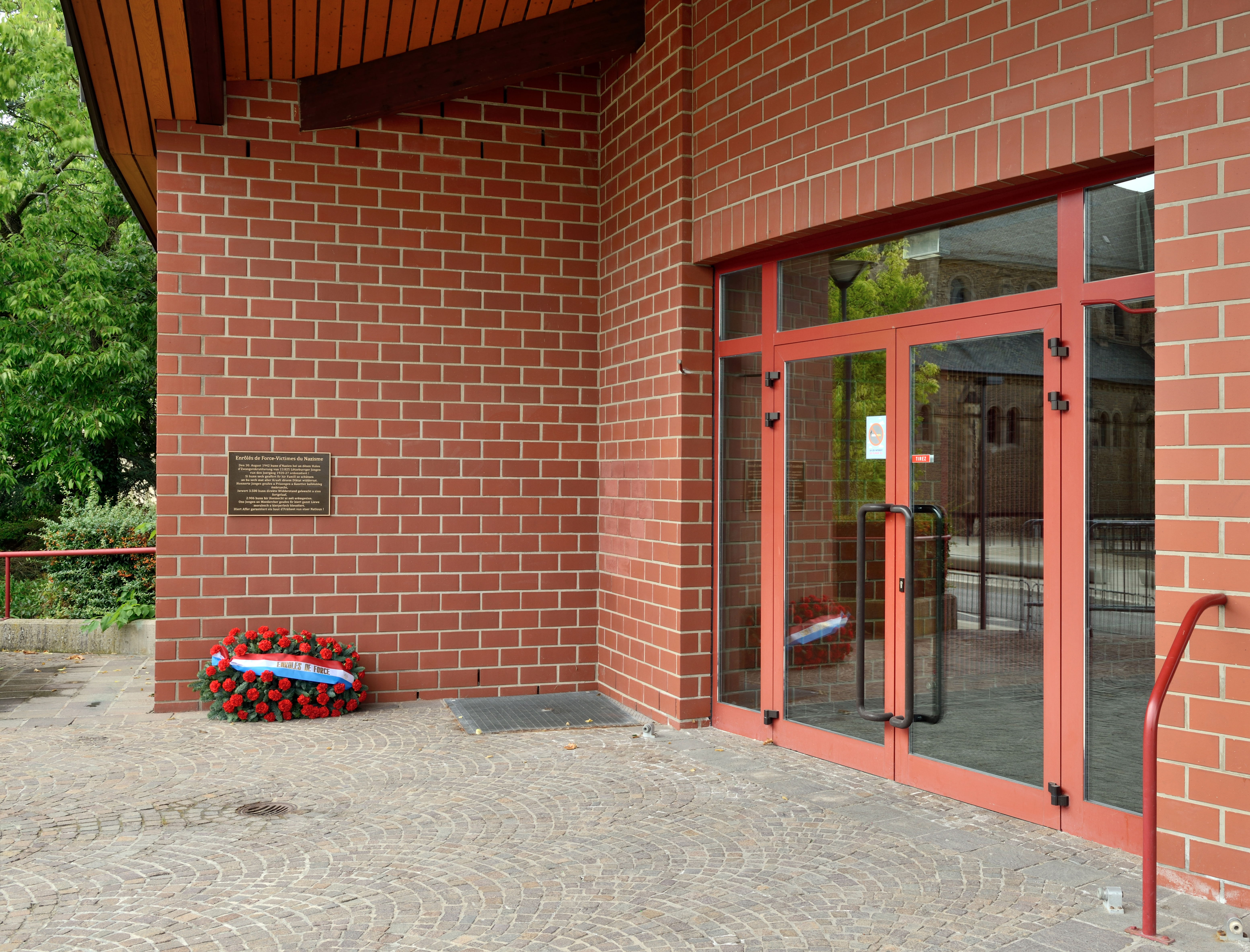 Luxembourg City: entrance of Halle Victor-Hugo with a plaque commemorating the forced conscription of the young Luxembourgish men into the German Wehrmacht. The announcement of the conscription was made on August 30 in this building by the gauleiter Gustav SSimon (1900-1945). The plaque was inaugurated on August 30 2012.